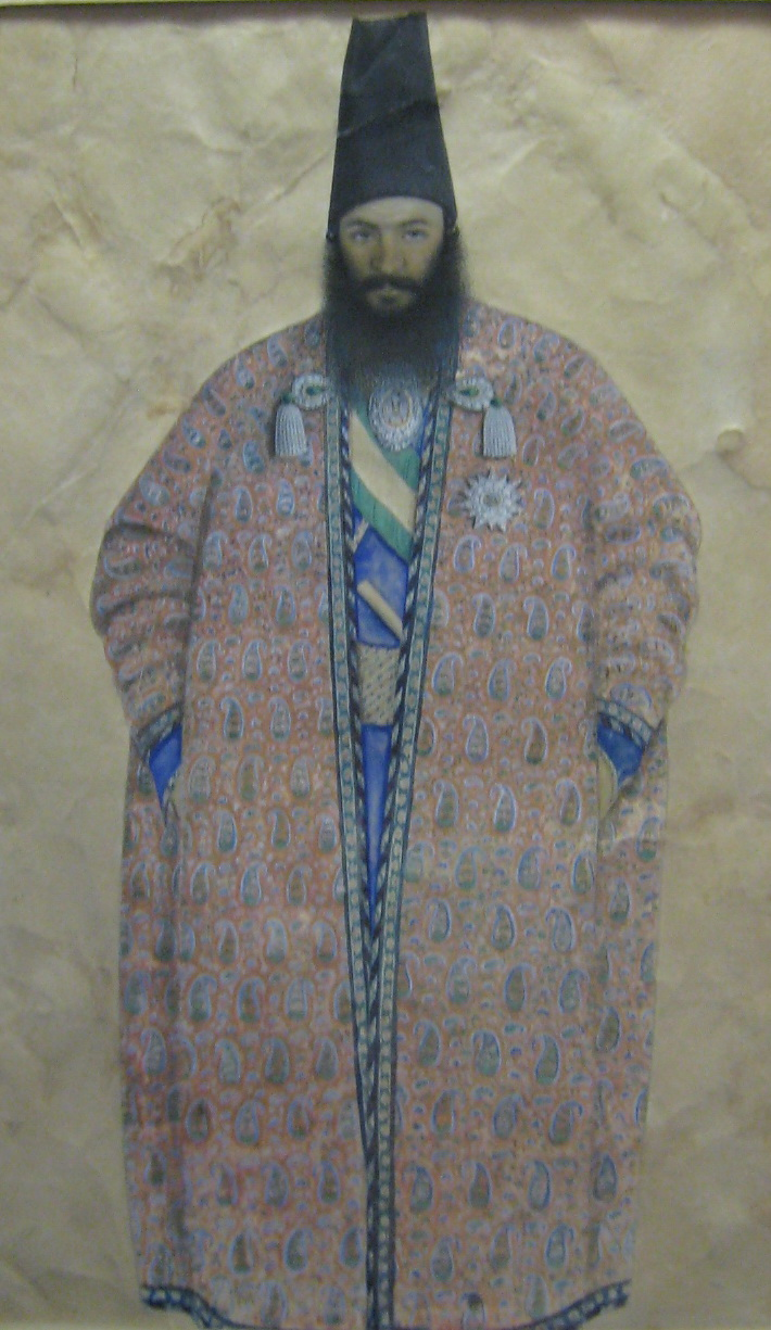 Painting thought by some to represent Amir Kabir , 19 th century AD ,National Museum of Iran. Most professionals believe he is one of Qajar personages, but not Amir Kabir